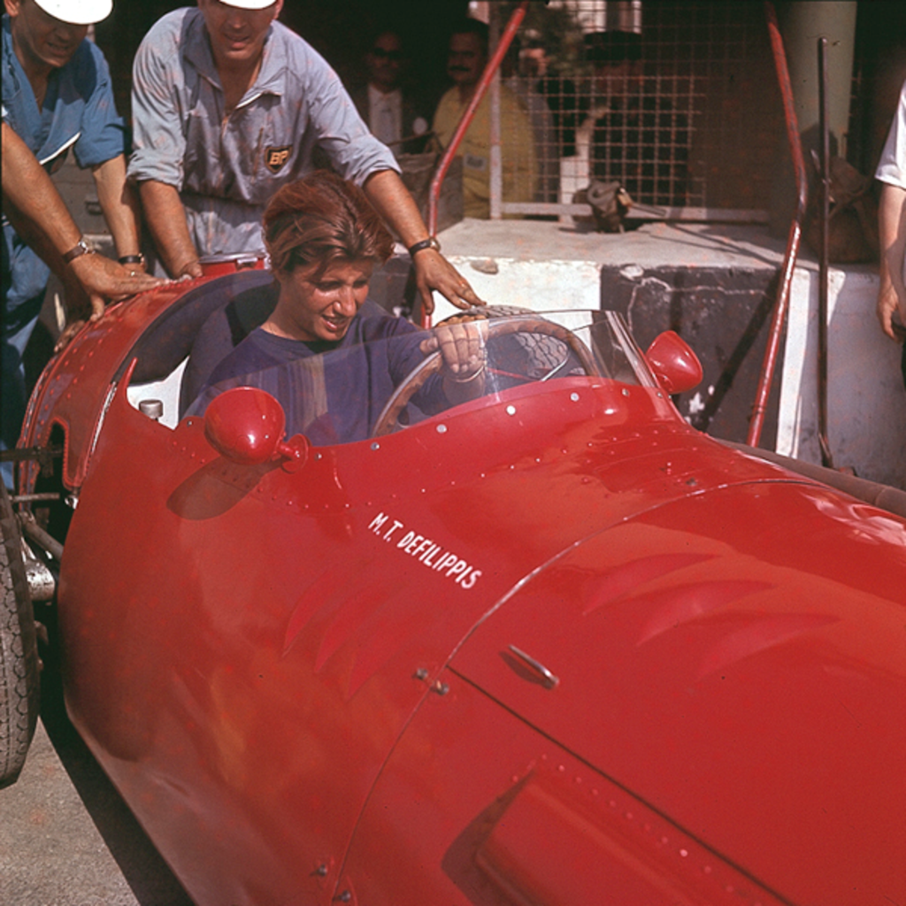 Maria Teresa de Filippis in the 1953-model Maserati 250F s/n 2501 (later 2523) at Italian Grand Prix at Monza (Italia) on 9 September 1958. Probably before the race (practice runs)? She had bought the car earlier that year[1], but did not finish the race.[2]